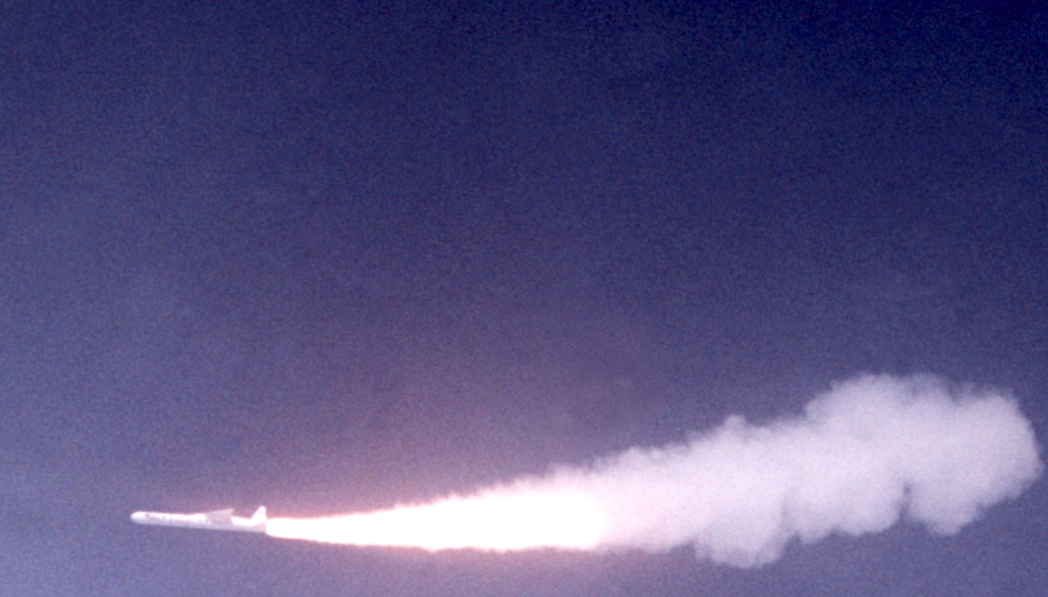 Pegasus firing after drop from a B-52. NASA ID number EC91-348-4